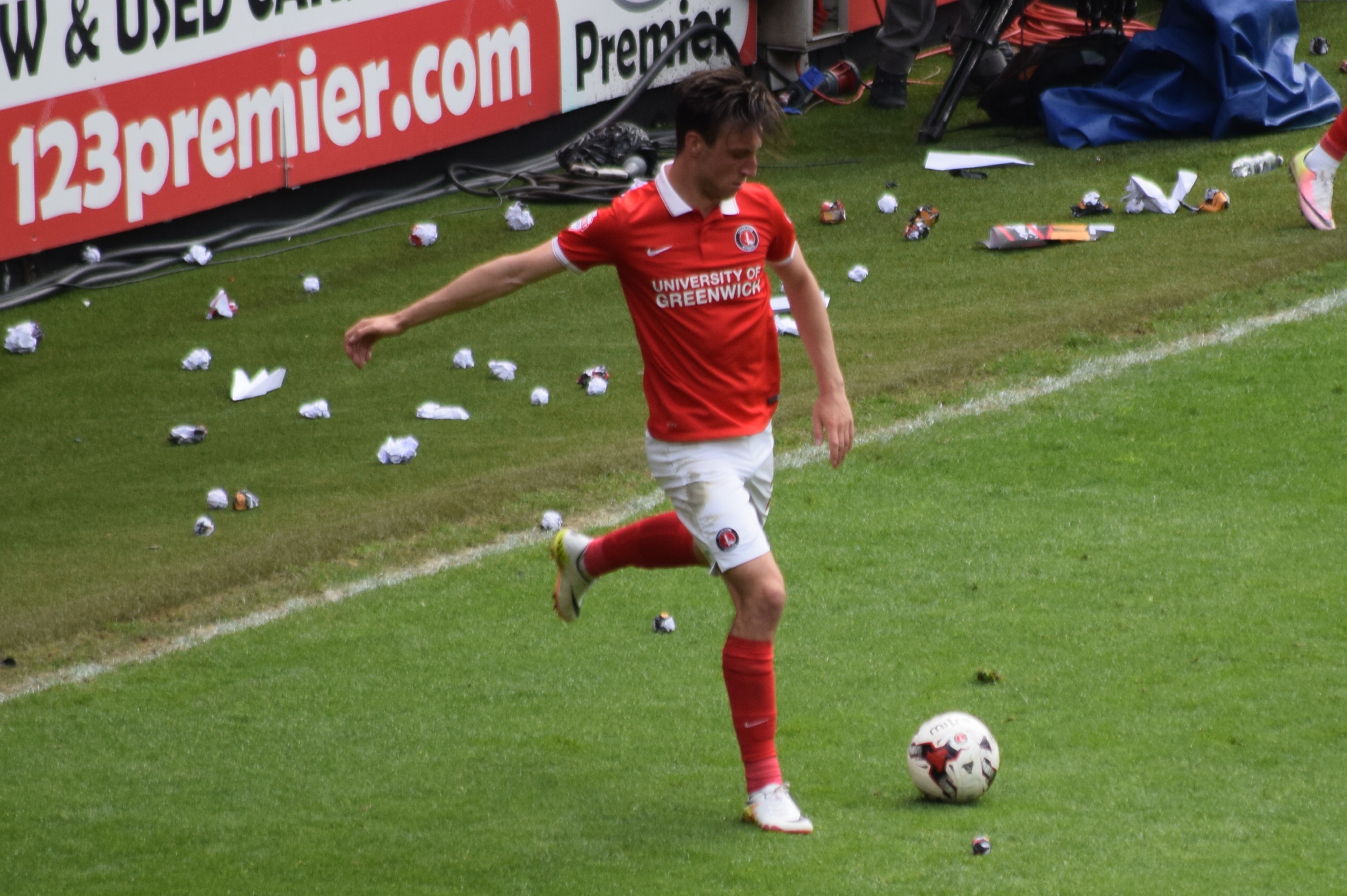 Morgan Fox, Charlton